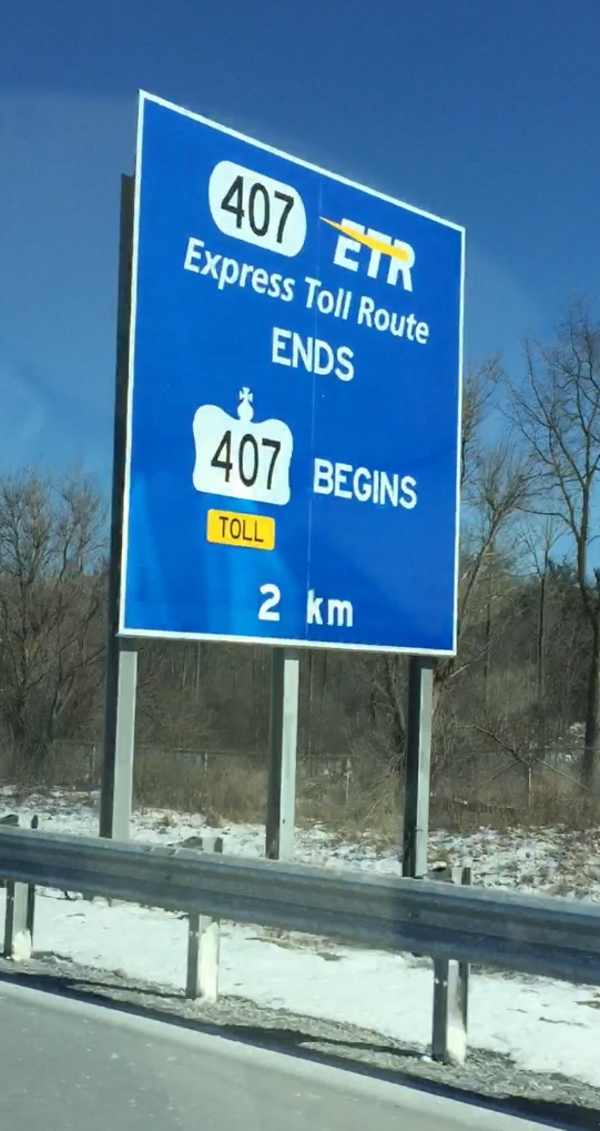 Signage in Pickering, ON to indicate the transition point of the 407 tollway from the privately operated section (407 ETR) to the provincially owned section (ON 407 or 407E).